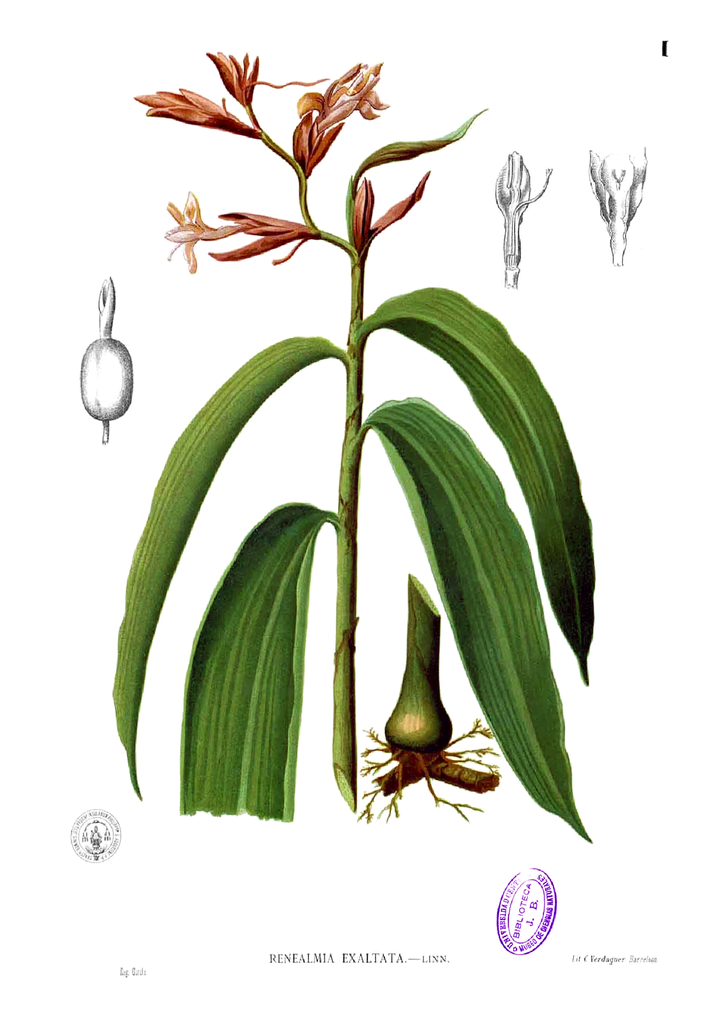 Plate from book Renealmia alpinia